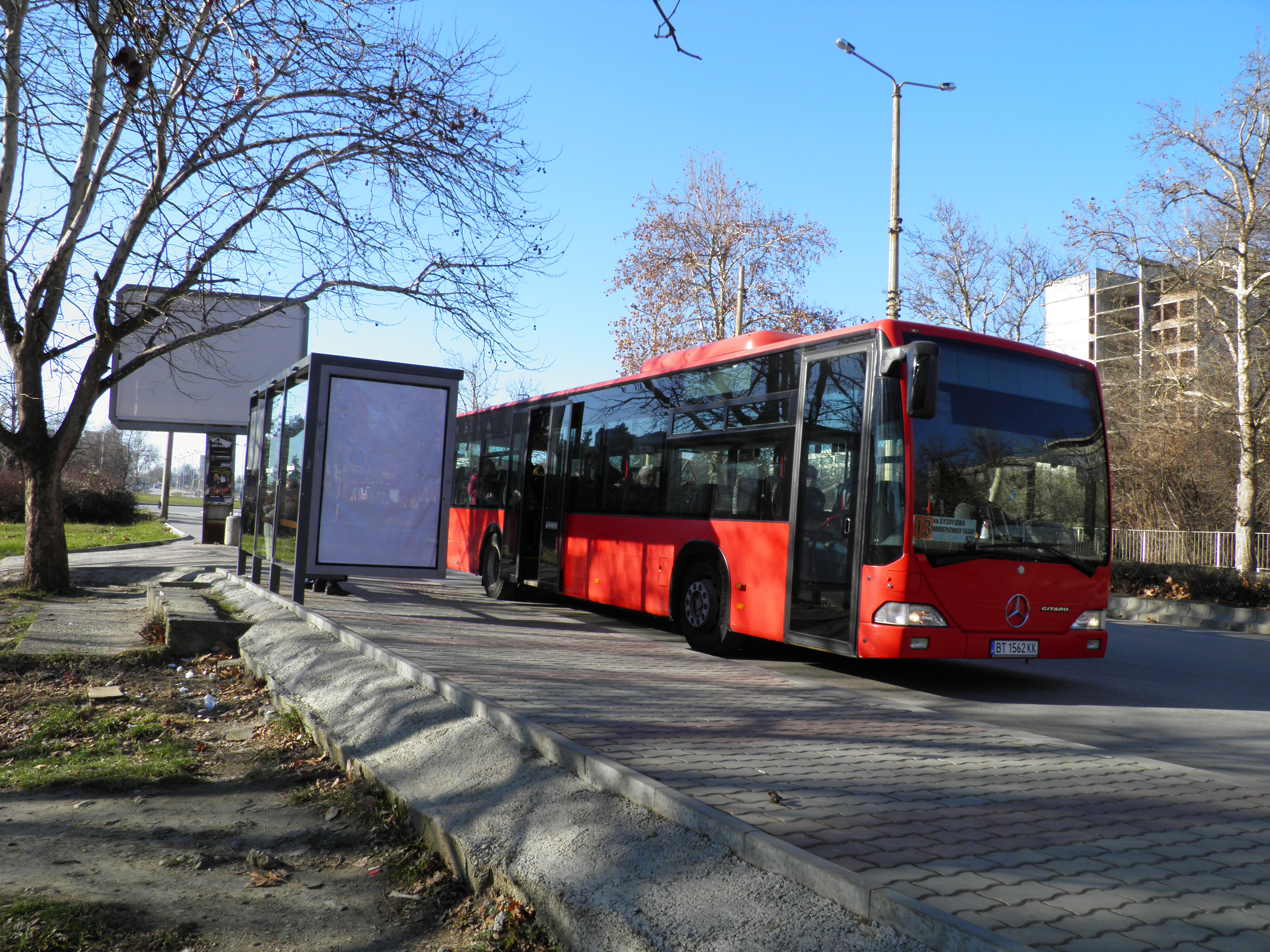 Bus line №13